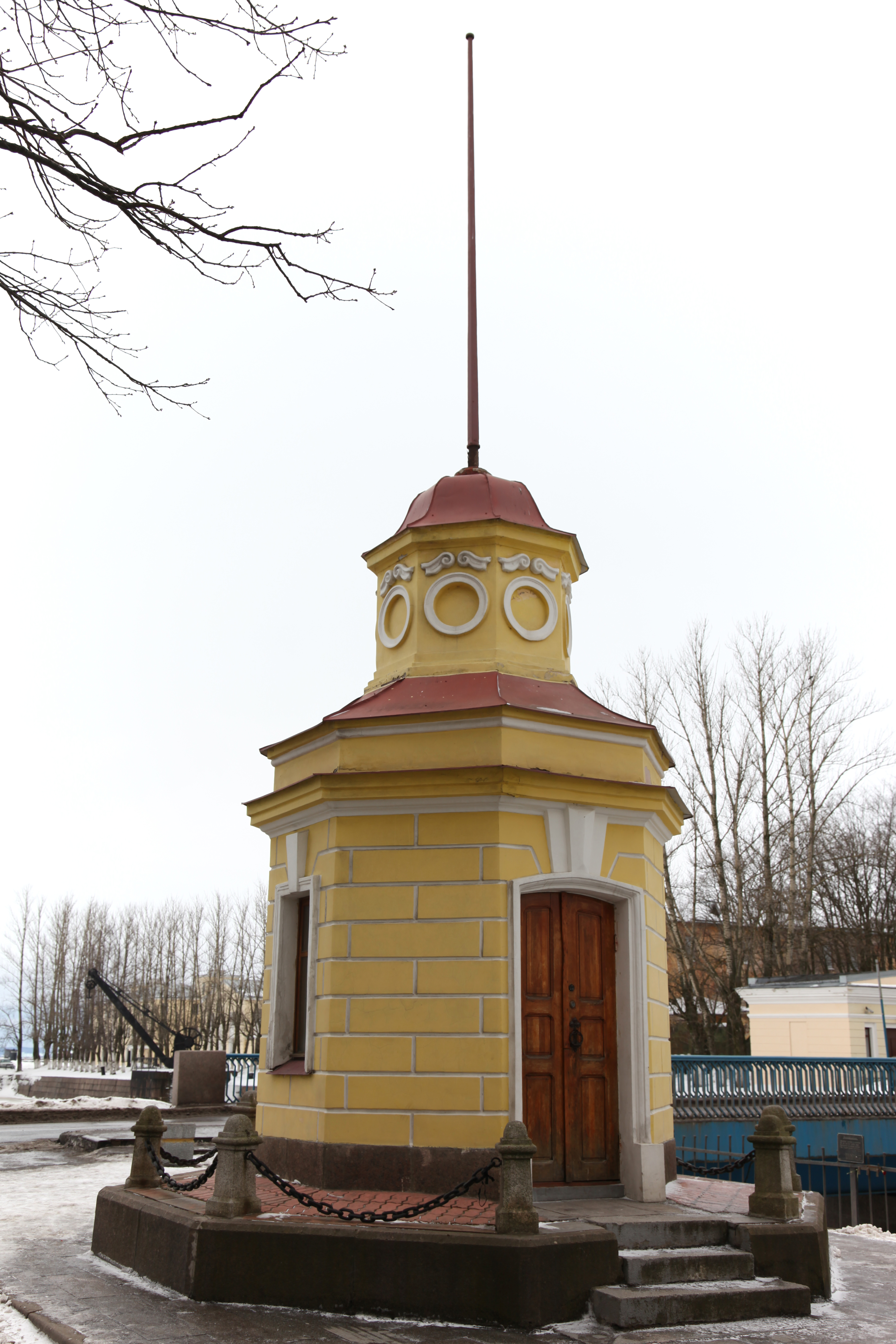 The tide gauge in Kronstadt, Saint Petersburg, Russia (Кроншта́дтский футшто́к)